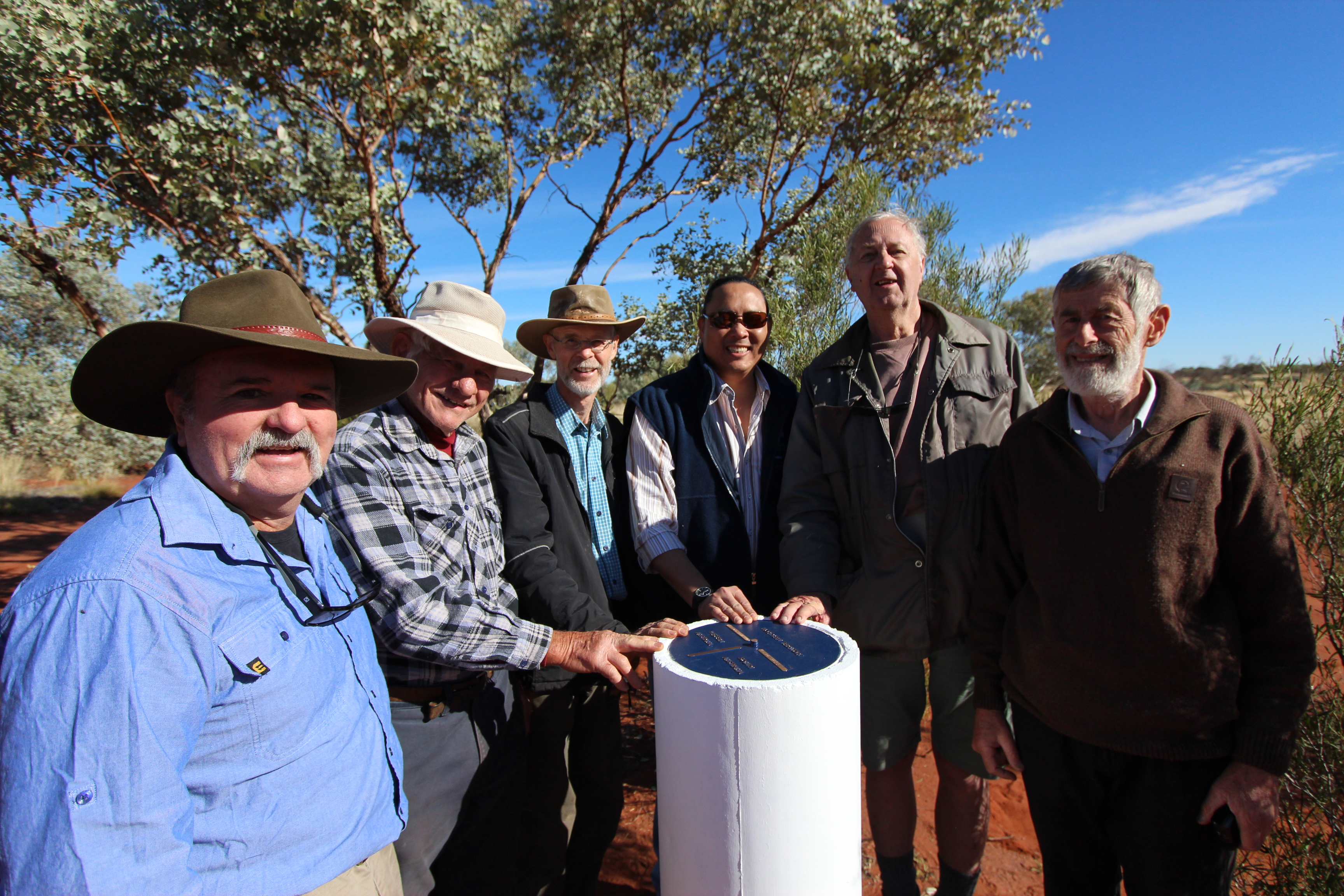 A group of surveyors at Surveyor-Generals Corner in June 2018. Left to right: Former Northern Territory Surveyor General Garry West, David Chudleigh, Roland Maddocks, current Northern Territory Surveyor General Rob Sarib, Barry Allwright and New Zealand surveyor Alan Radcliffe.